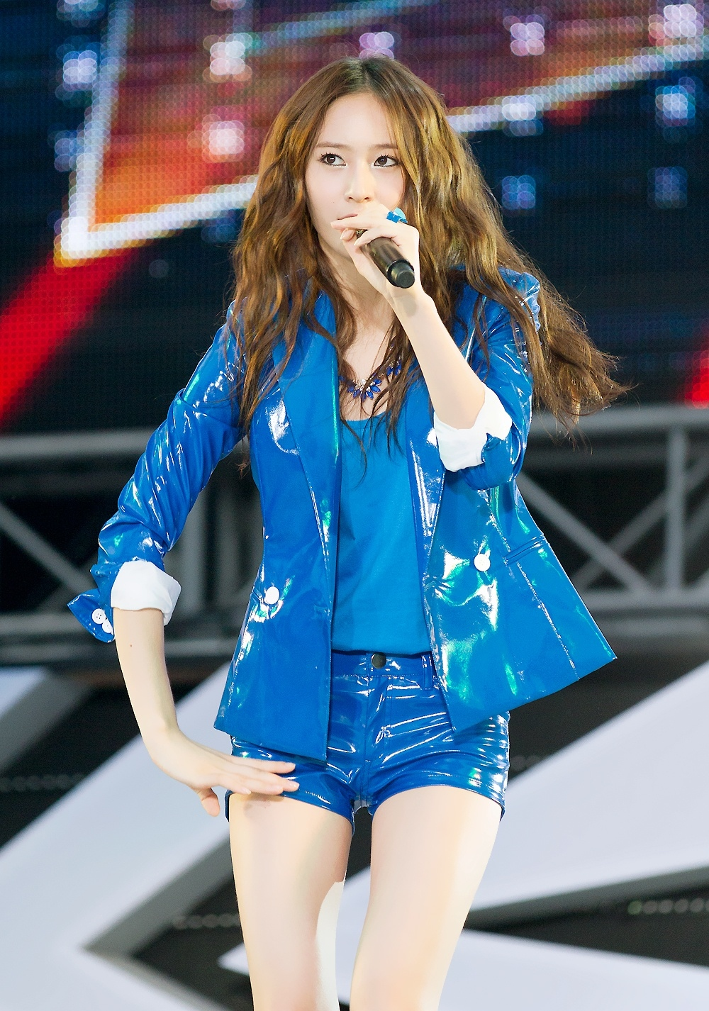 Krystal Jung at the SM Town Live World Tour III in Seoul on August 18, 2012.